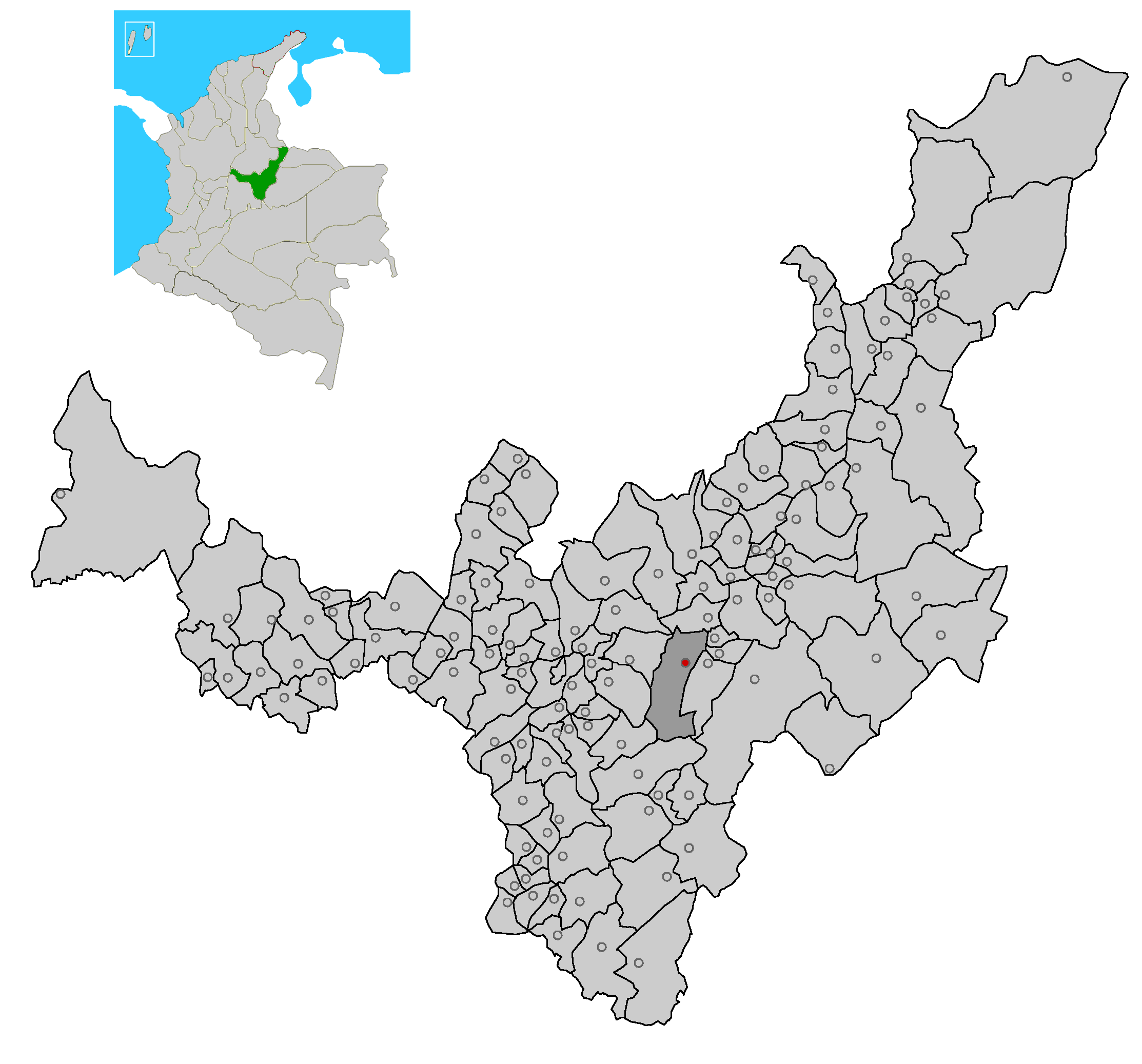 Image depicting map location of the town and municipality of Pesca in Boyaca Department, Colombia